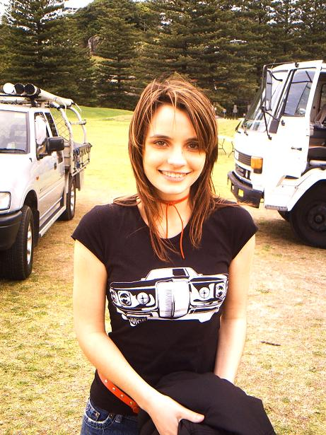 Jessica Tovey during filming Home and Away at Palm Beach. Taken by cls14, August 2006